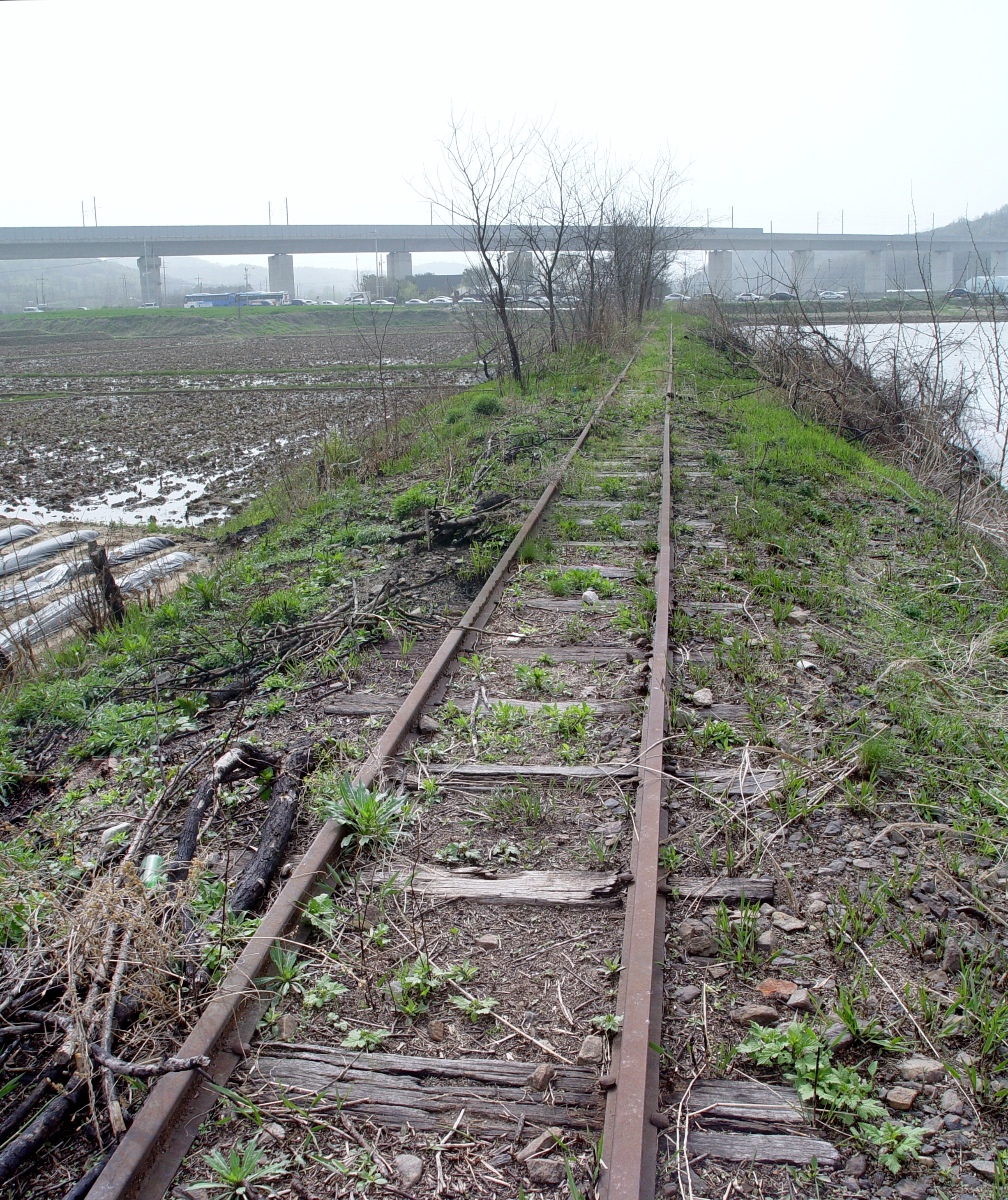 The Suin Line in Oksan-maeul, Hwaseong